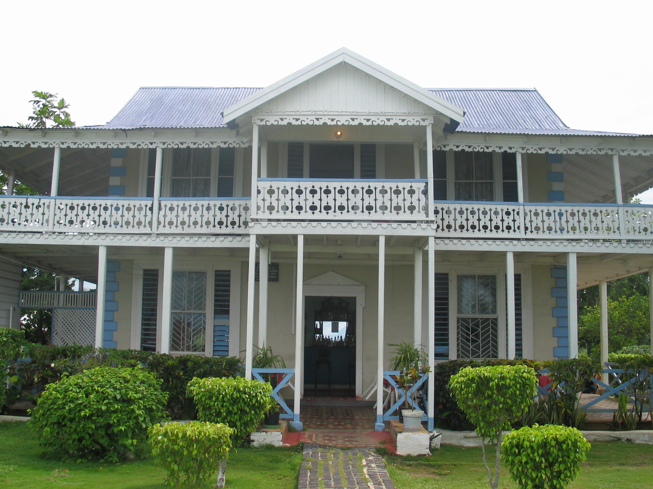 Waterloo Guest House, Black River, Jamaica. This is the first and oldest place to be supplied with electricity in Jamaica.